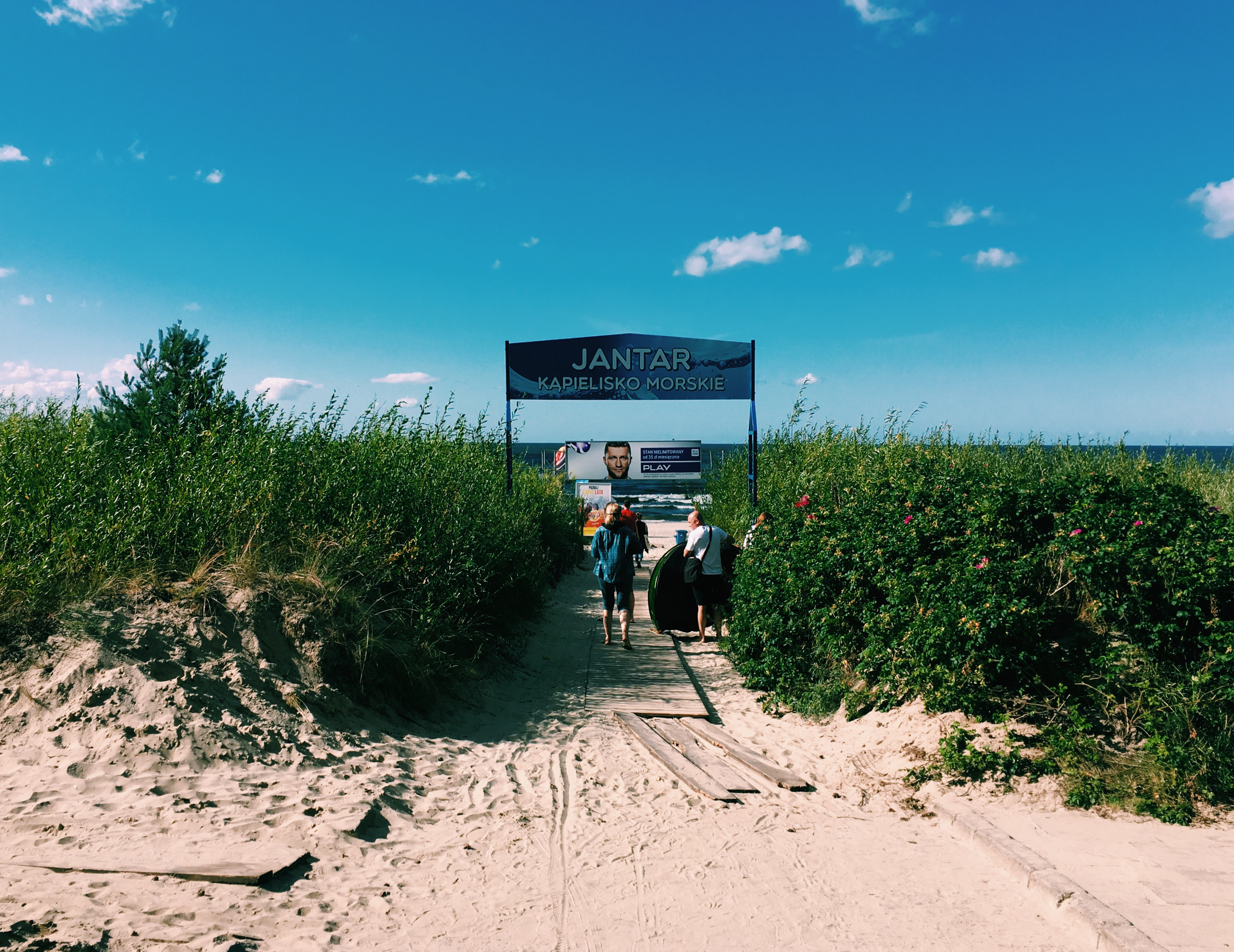 Main entrance to the beach in Jantar, Poland.